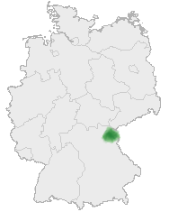 Location of Fichtelgebirge in Germany